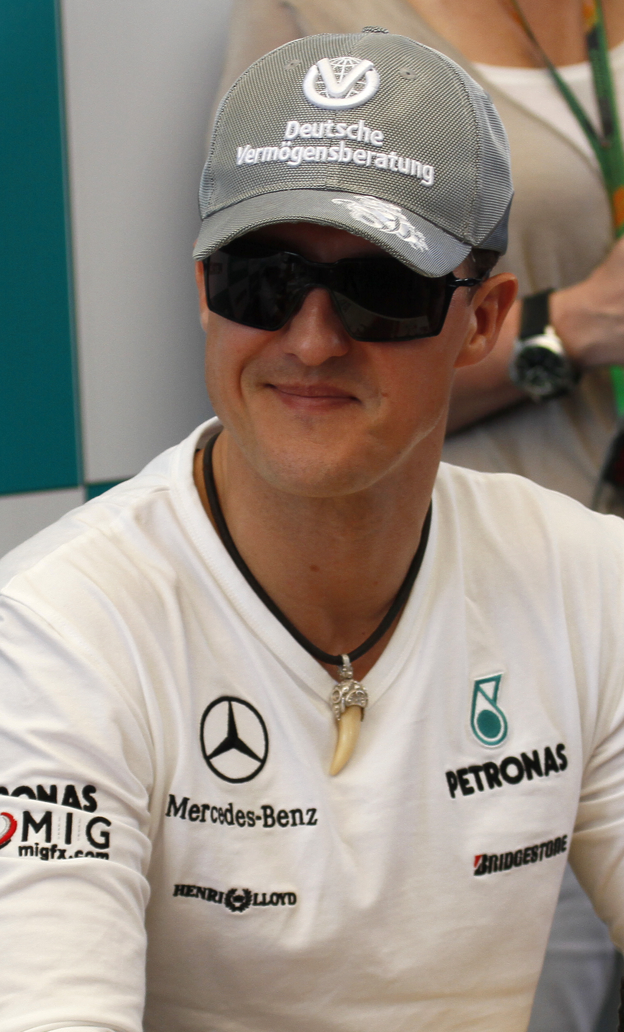 Formula One 2010 Rd.3 Malaysian GP: Michael Schumacher (Mercedes GP) at autograph session on Sunday.